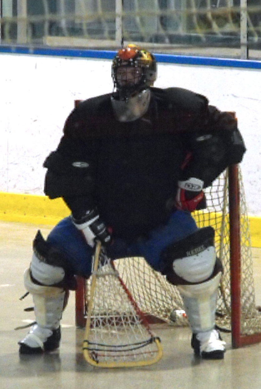 Devan Mighton, men's masters lacrosse practice 2009.